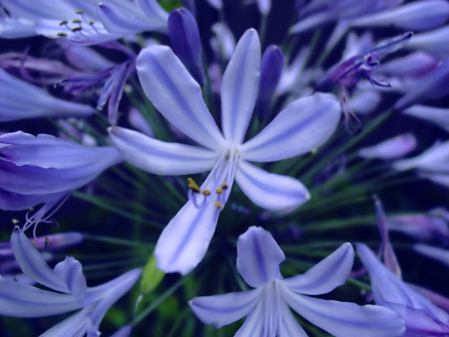 I took this picture several years ago in my garden at Woodland Hills, California. I'll be more than happy if it is used anywhere at Wikipedia. And yes, I release my rights.